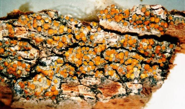 Caloplaca luteoalba (Turner) Th. Fr., 1860 (photograph of a herbarium specimen taken through a dissecting microscope (x6) showing thallus and orange apothecia) This specimen was in Dr. Elmer G. Worthley's personal lichen herbarium and the label on the packet reads as follows: "Lichenes suecici/ Caloplaca luteoalba (Turn.) Närke/ Par. Ringkarleby: Asplunda/ VI_VIII 1899/ leg. G. A. Ringselle" / (No. L-541, 1899); specimen is now in the Lichen Herbarium of the New York Botanical Garden.